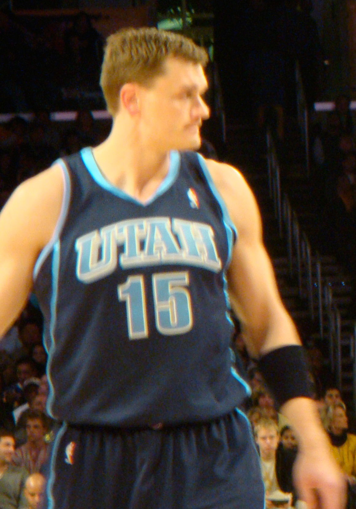 Matt Harpring during the January 2, 2009 Los Angeles Lakers vs. Utah Jazz game. Cropped from original.